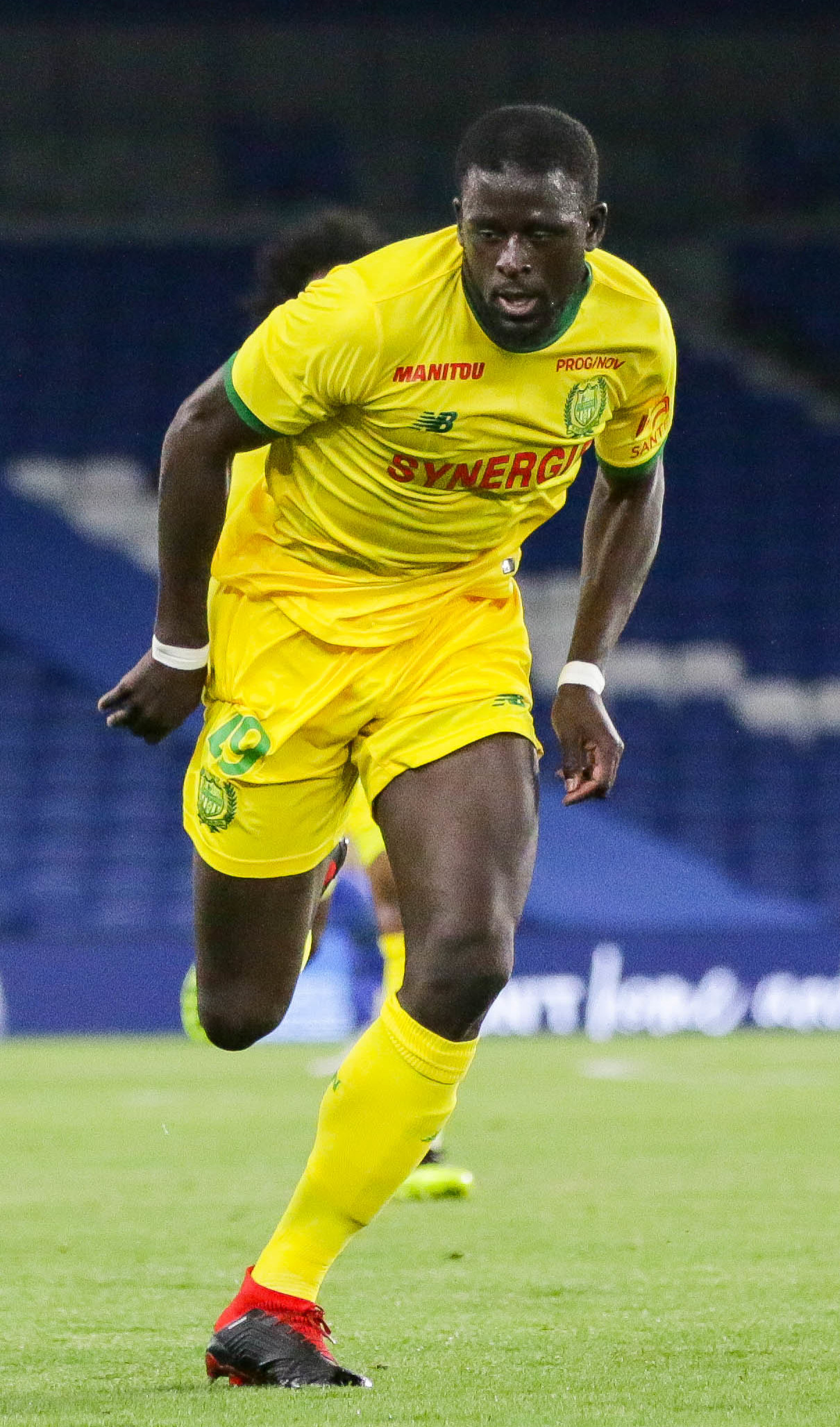 BHA v FC Nantes pre season 03 08 2018-1020.jpg